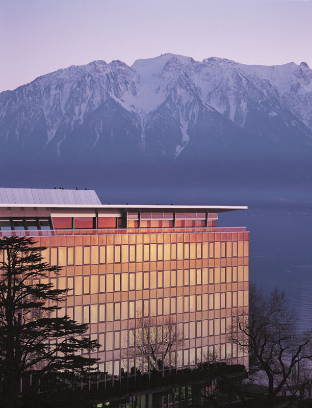 Detail view of Nestle's HQ